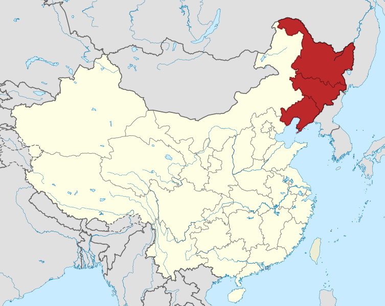 China location map - Northeast China